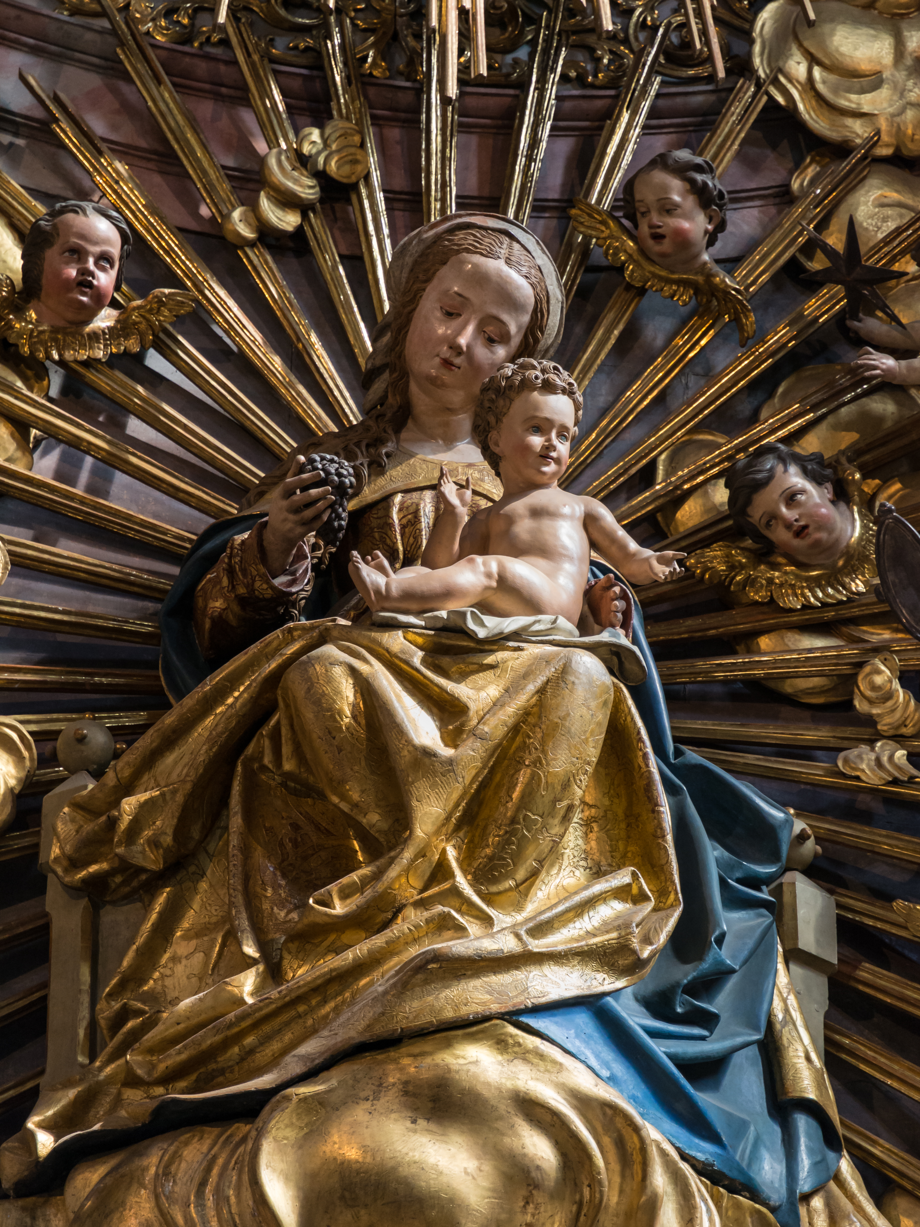 Madonna and Child at the high altar of the Franciscan Church Salzburg, federal state of Salzburg, Austria. Relic of the winged altar by Michael Pacher, 1495—1489.